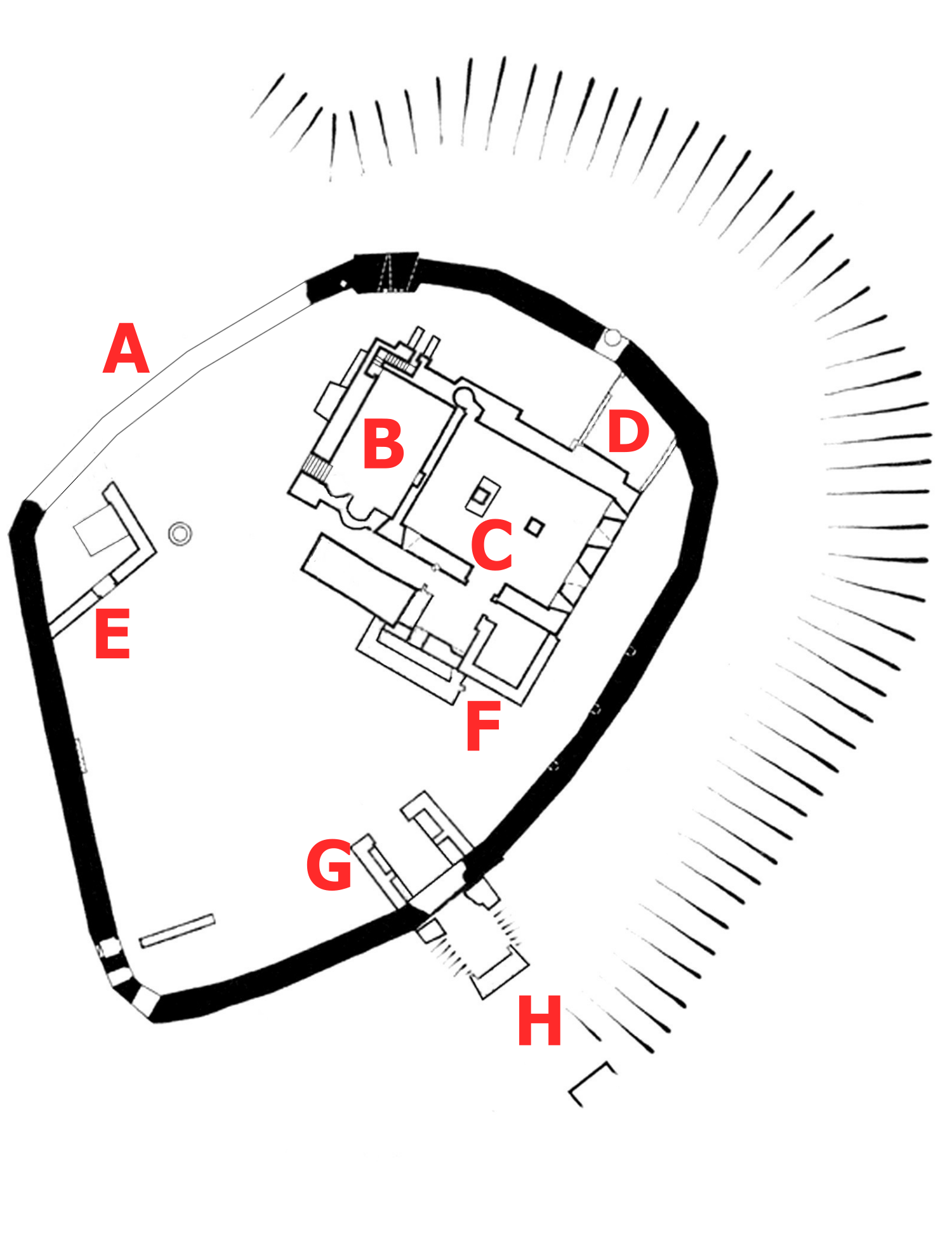 Eynsford Castle, medieval period; after 1988 research